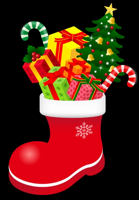 Christmas Boots